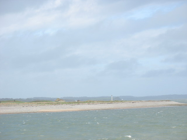 Abermenai Point from Belan Beach The old ruined building on the spit was the store for explosives imported into Caernarfon for use in the quarries. Ships carrying explosives were not allowed into the port and had to discharge at Abermenai. Small quantities of nitro-glycerine were brought to the Caernarfonshire side of the Straits by rowing boat and then carted to the quarries. On one occasion, in 1864, a cart load of explosives exploded near Llyn Padarn. SH5562